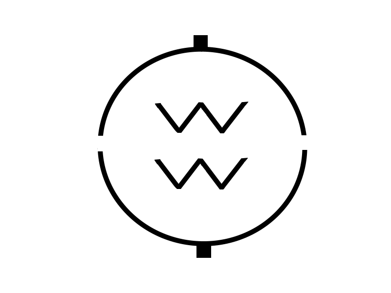 83. Infanterie Division Vehicle Insignia, German Army, World War II